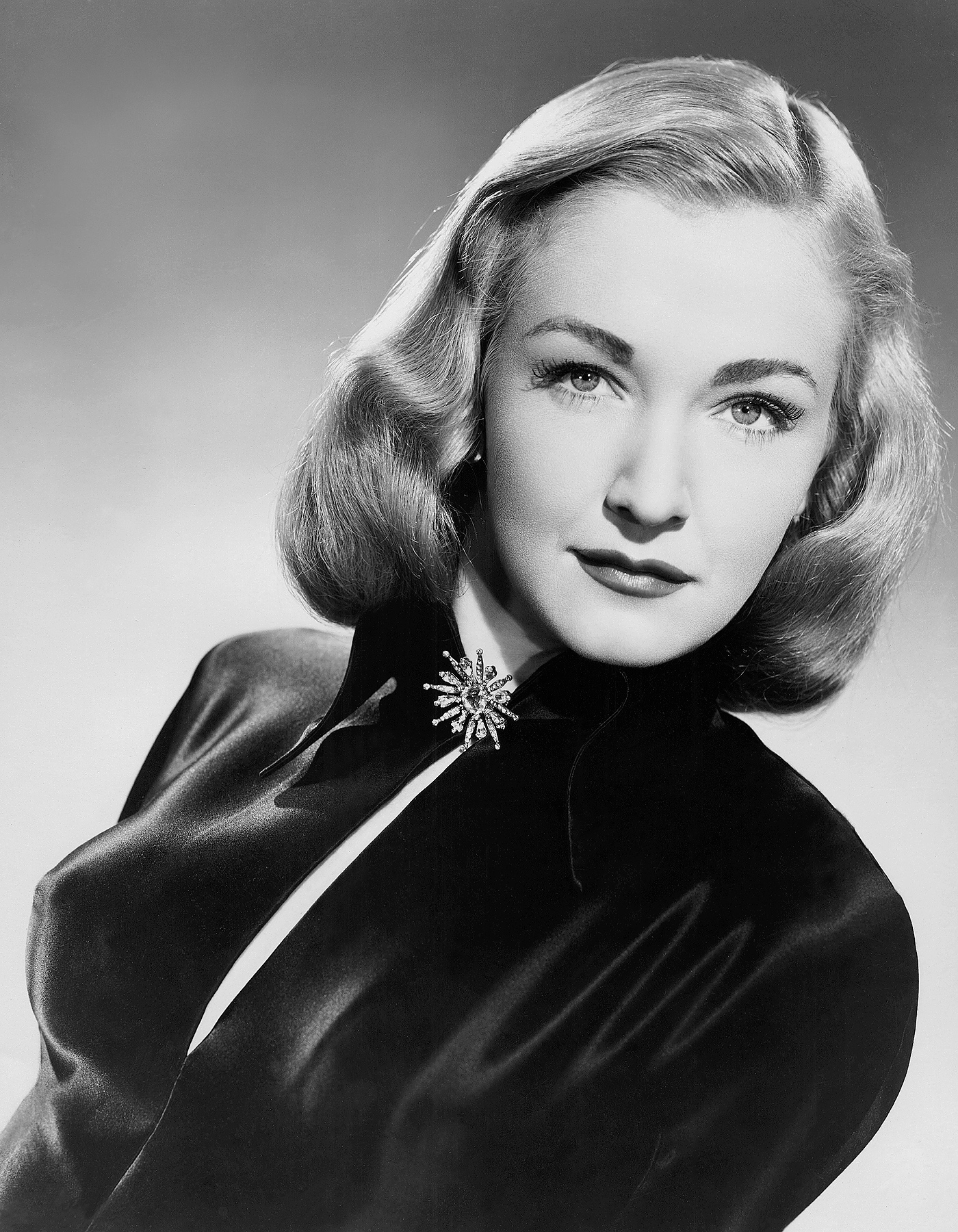 Promotional photograph of actor Nina Foch (1950s)